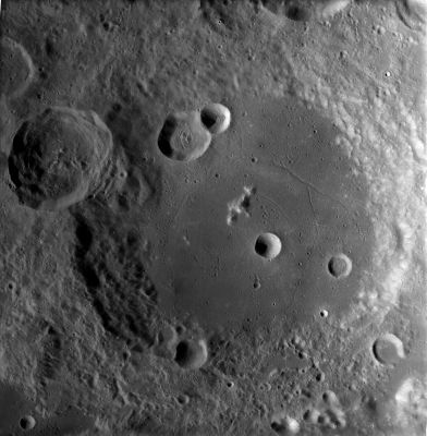 LROC mosaic image (WAC No.'s M119490013ME, M119483236ME, M119496821ME). Calibrated by LROC_WAC_Previewer.